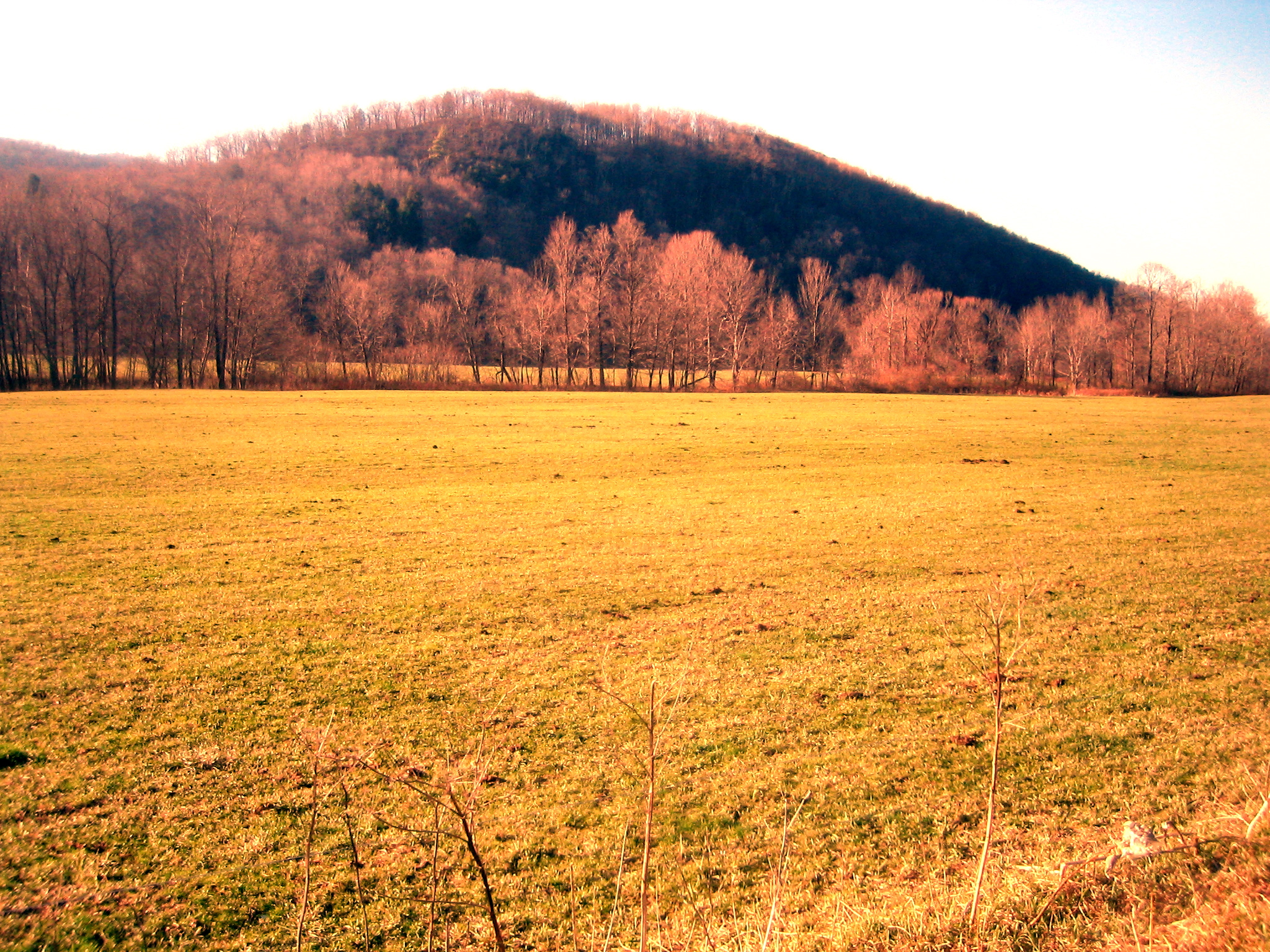 East Rupert, Vermont - Rte 30